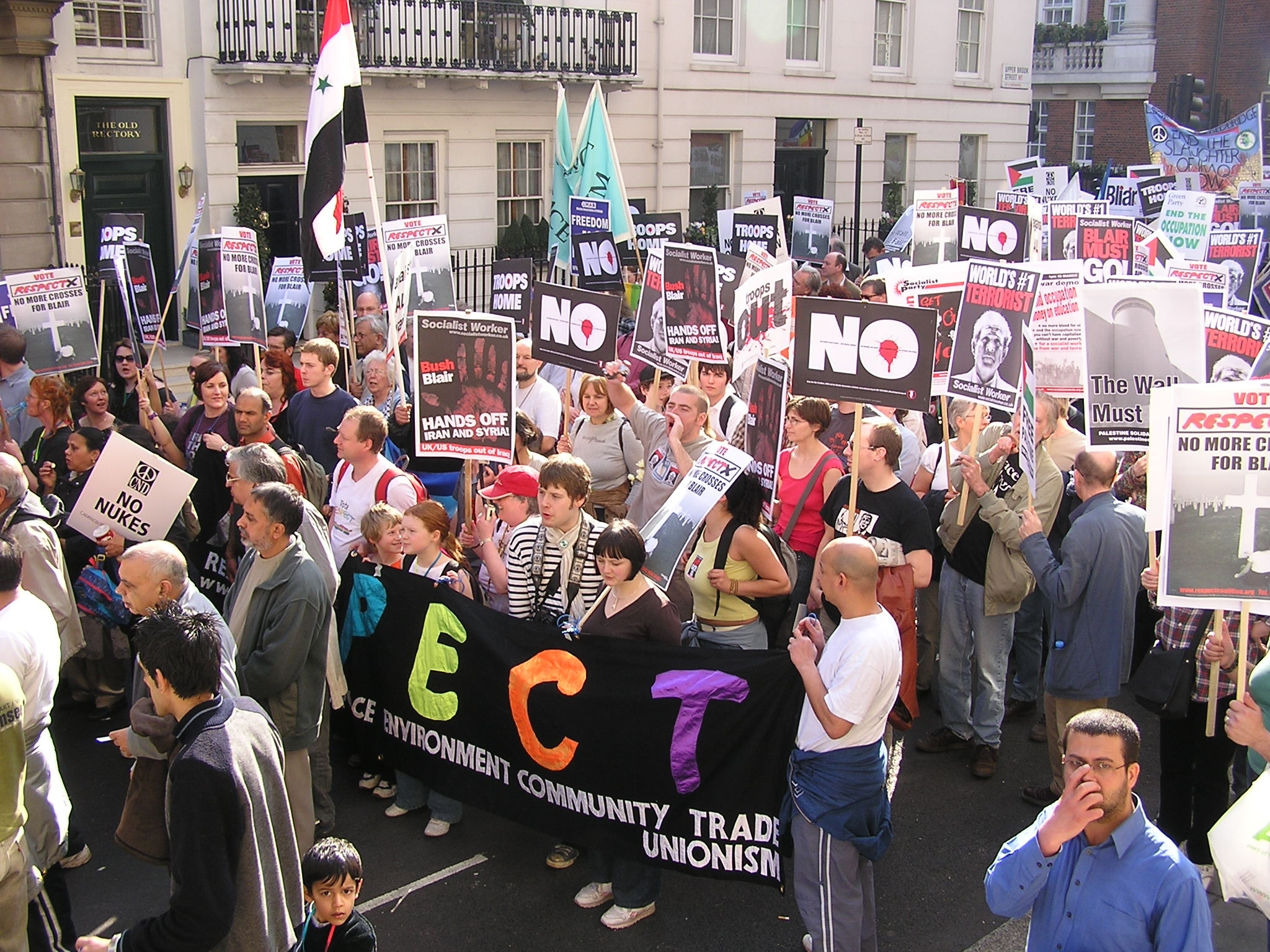 Anti-war demo London